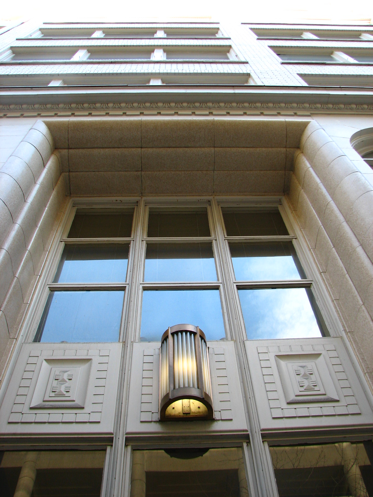 The historic Buyers Building (built 1922), located at 317 Southwest Alder Street in Portland, Oregon, United States, is listed on the US National Register of Historic Places.